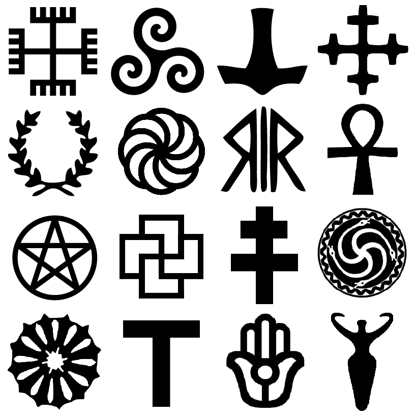 Collection of various symbols of used for or by Neopagan religions or groups. The symbols are identified by the uploader as (from left to right): 1st Row Slavic Rodnovery ("Hands of God") Celtic Neopaganism (or general triskele / triple spiral) Germanic Heathenism ("Thor's Hammer") Latvian Dievturi ("Cross of crosses or Cross of Māra") 2nd Row Hellenism Armenian Hetanism ("Arevakhach") Italo-Roman Neopaganism Kemetism ("ankh", key of life, handled cross) 3rd Row Wicca (pentagram or pentacle) Finnish Neopaganism ("Tursaansydän") Hungarian Neopaganism (double cross or "világfa", world tree) Lithuanian Romuva 4th Row Estonian Neopaganism ("Jumiõis", cornflower) Circassian Habzism ("hammer cross") Semitic Neopaganism ("hamsa") Goddess movement and Wicca (raised-arms female figure)